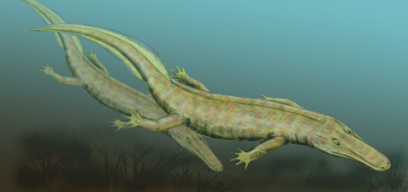 Archeria crassidisca an embolomeri from the Early permian of Texas, pencil drawing, digital coloring